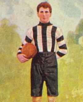 Photograph of Con McCormack from 1902-1903.